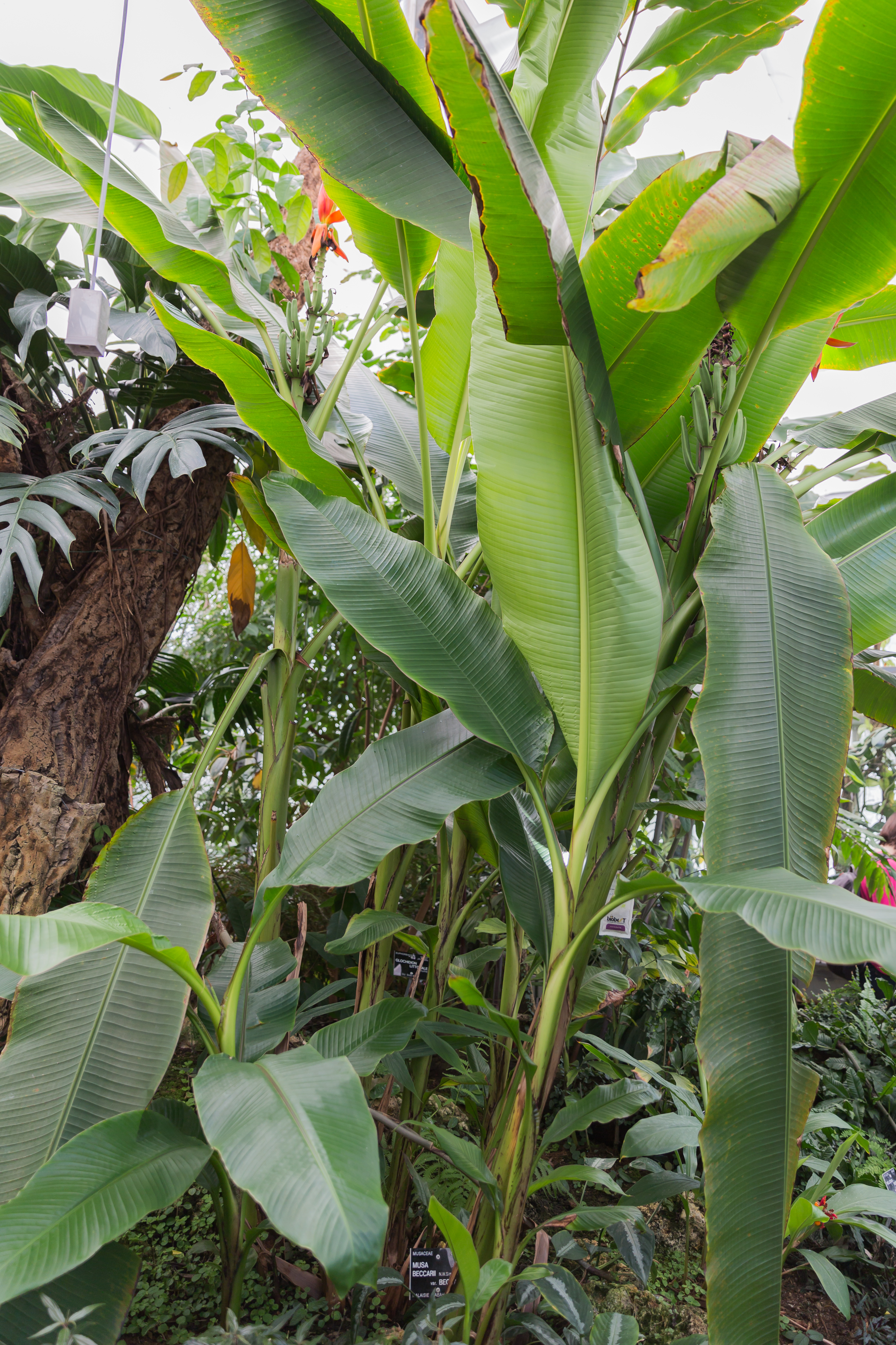 Beccarii Musa in the jardin botanique de Lyon, France.